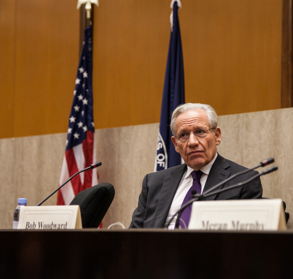 Bob Woodward meets with Edward R. Murrow participants